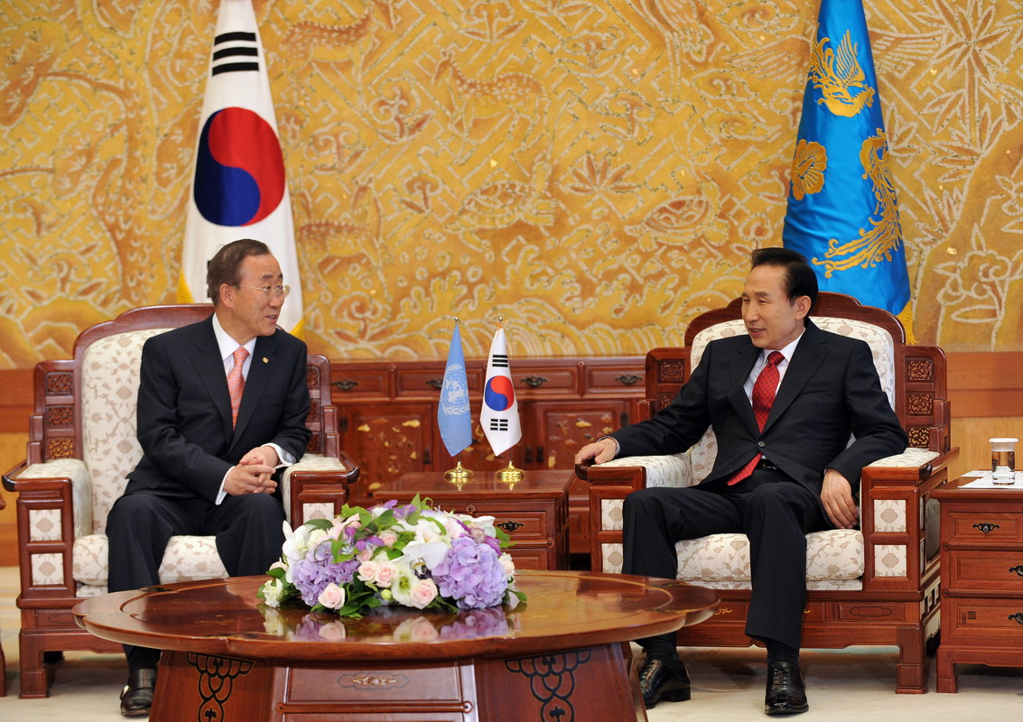 UN Secretary General Ban Ki-moon meet with South Korean President Lee Myung-bak